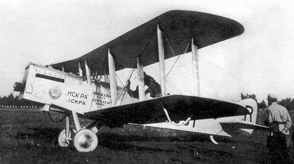 Polikarpov R-1 #R-ROST 'ISKRA' (in Russian/upper and Ukrainian/under languages)